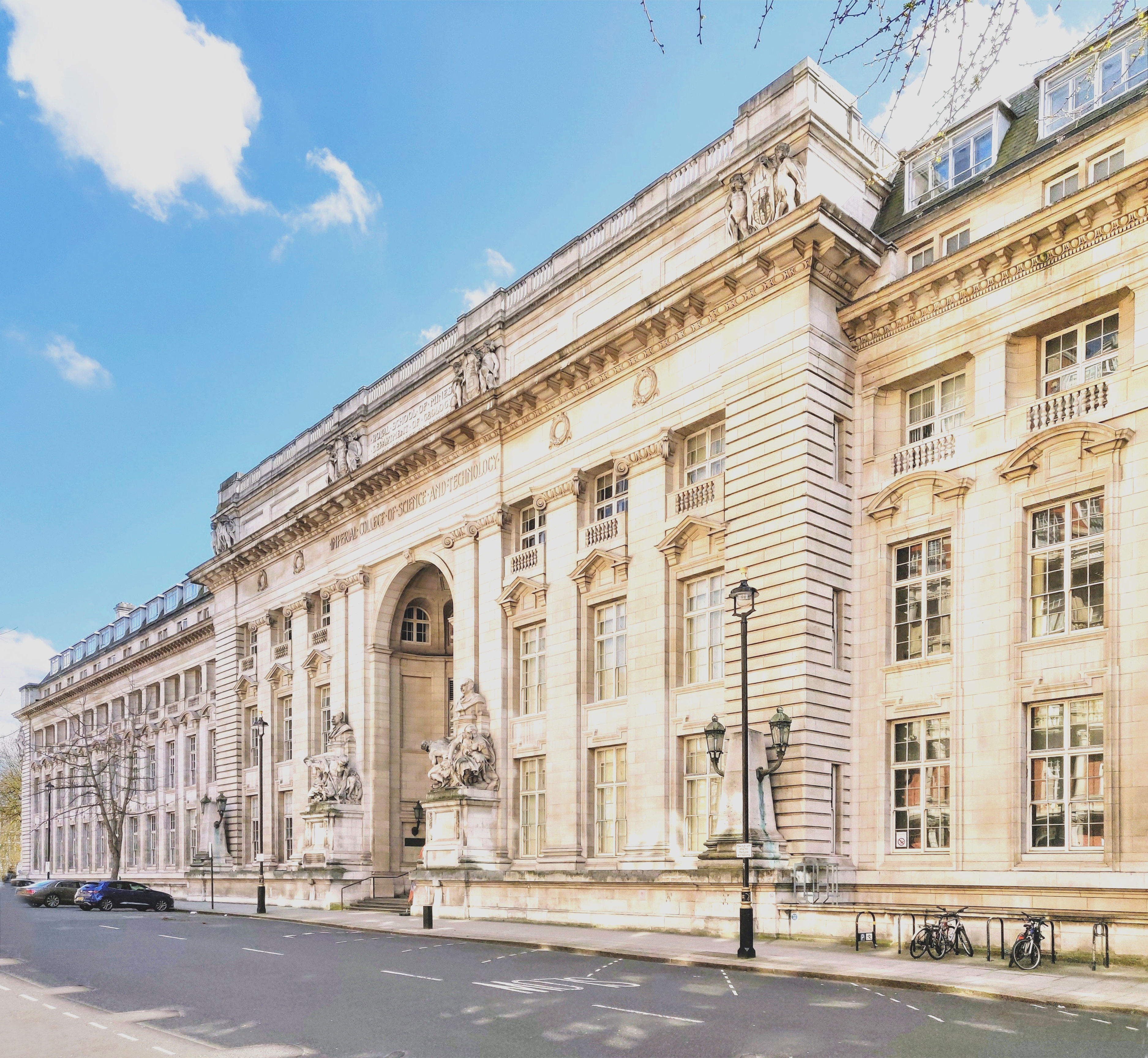 The Royal School of Mines is a historic listed building, historically a separate constituent college within Imperial College. Today the building is home to the departments of Materials, and Earth Science and Engineering.